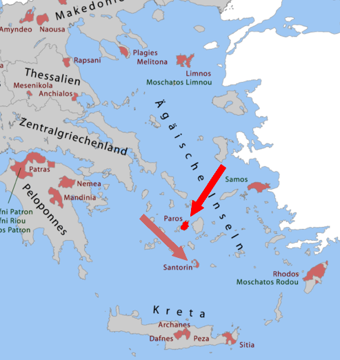 OPAP Santorin - Map